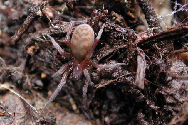 Pimus sp., northern California.